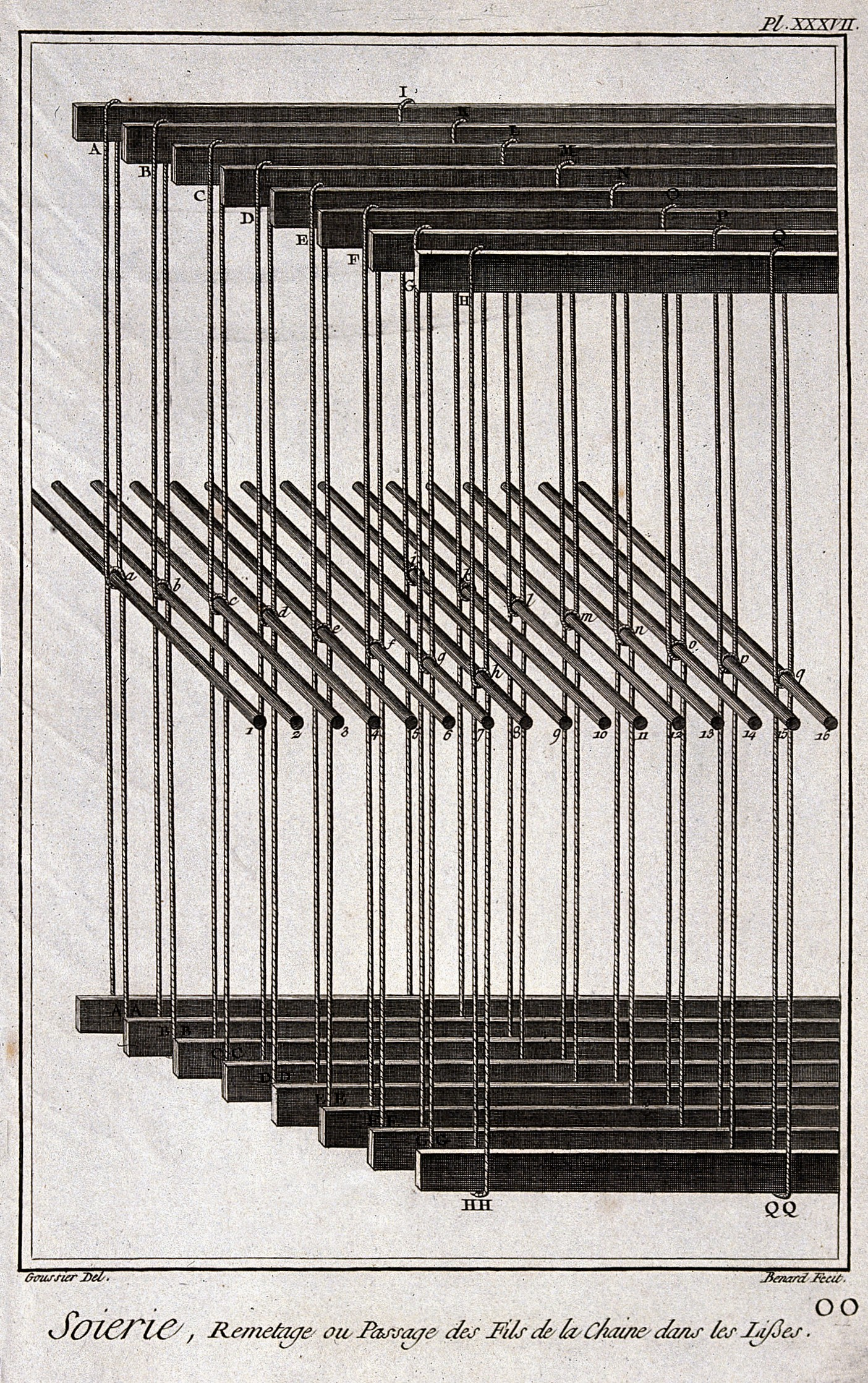 Textiles: silk weaving, layout of the loom chains. Engraving by R. Benard after L.-J. Goussier. Iconographic Collections Keywords: Louis-Jacques Goussier; Robert Bénard